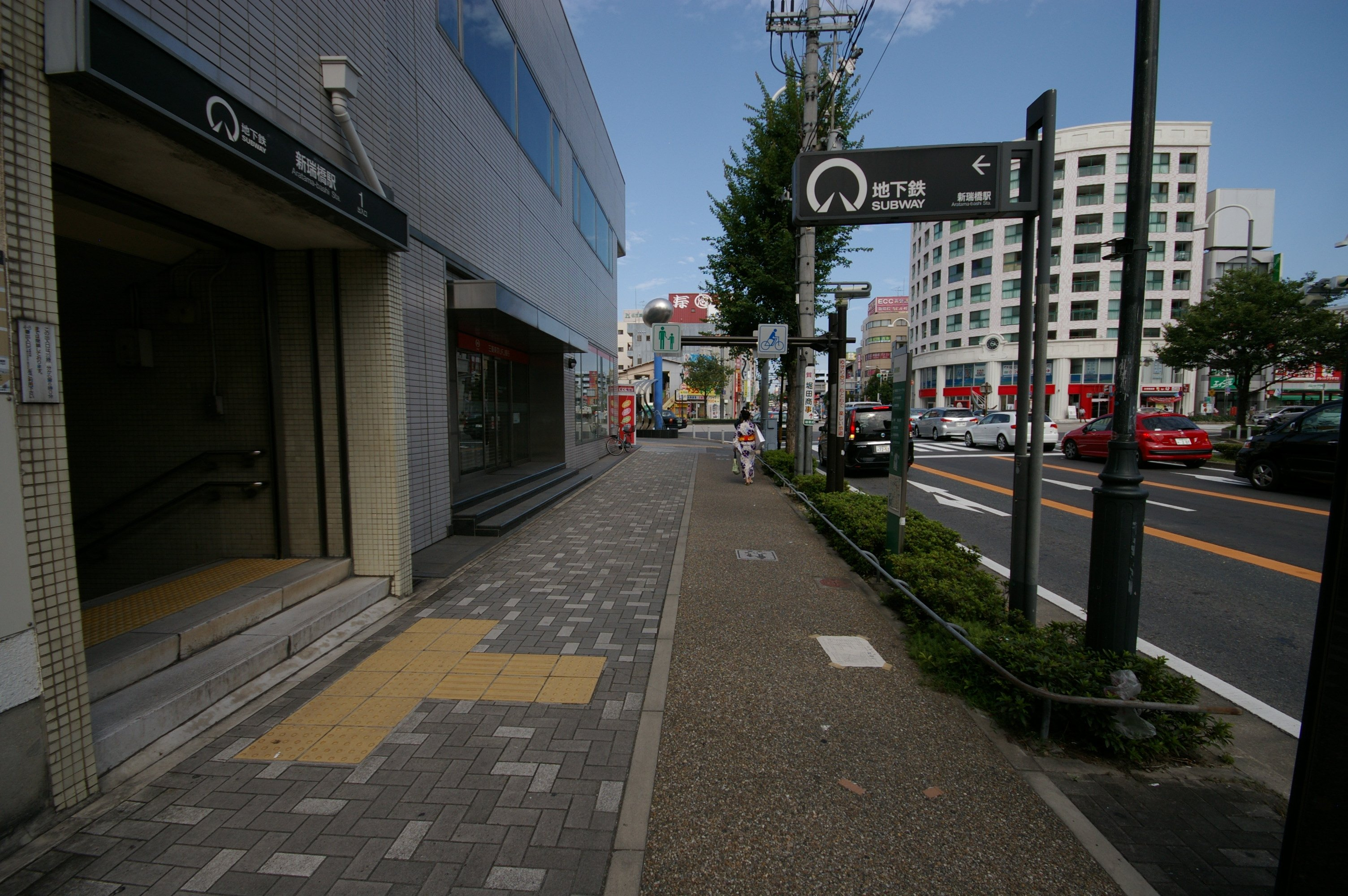 Nagoya Aratama-bashi Subway Station